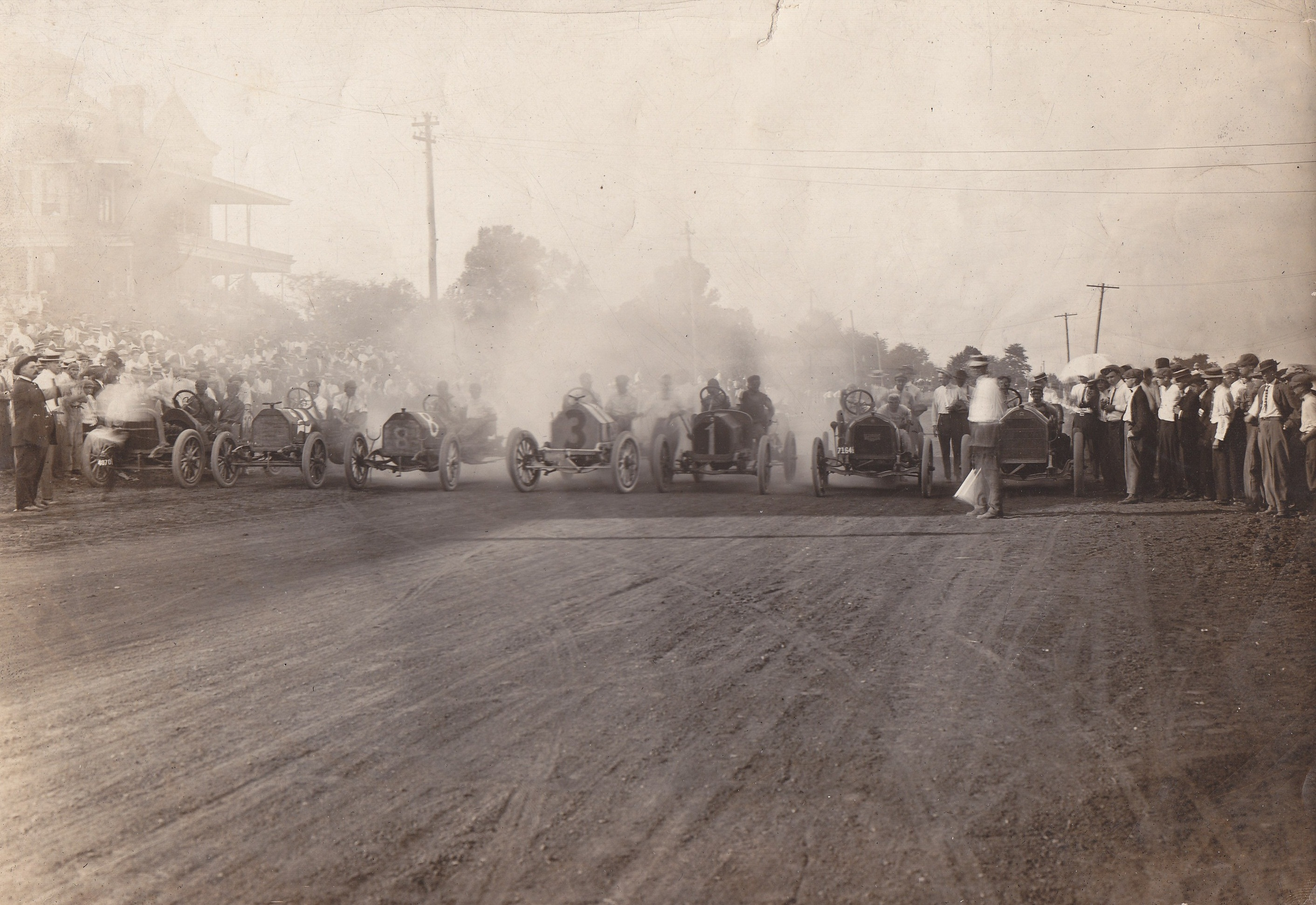 1911 race at Nashville state fairgrounds. Note the Victorian home in the background that remained on site for many years.